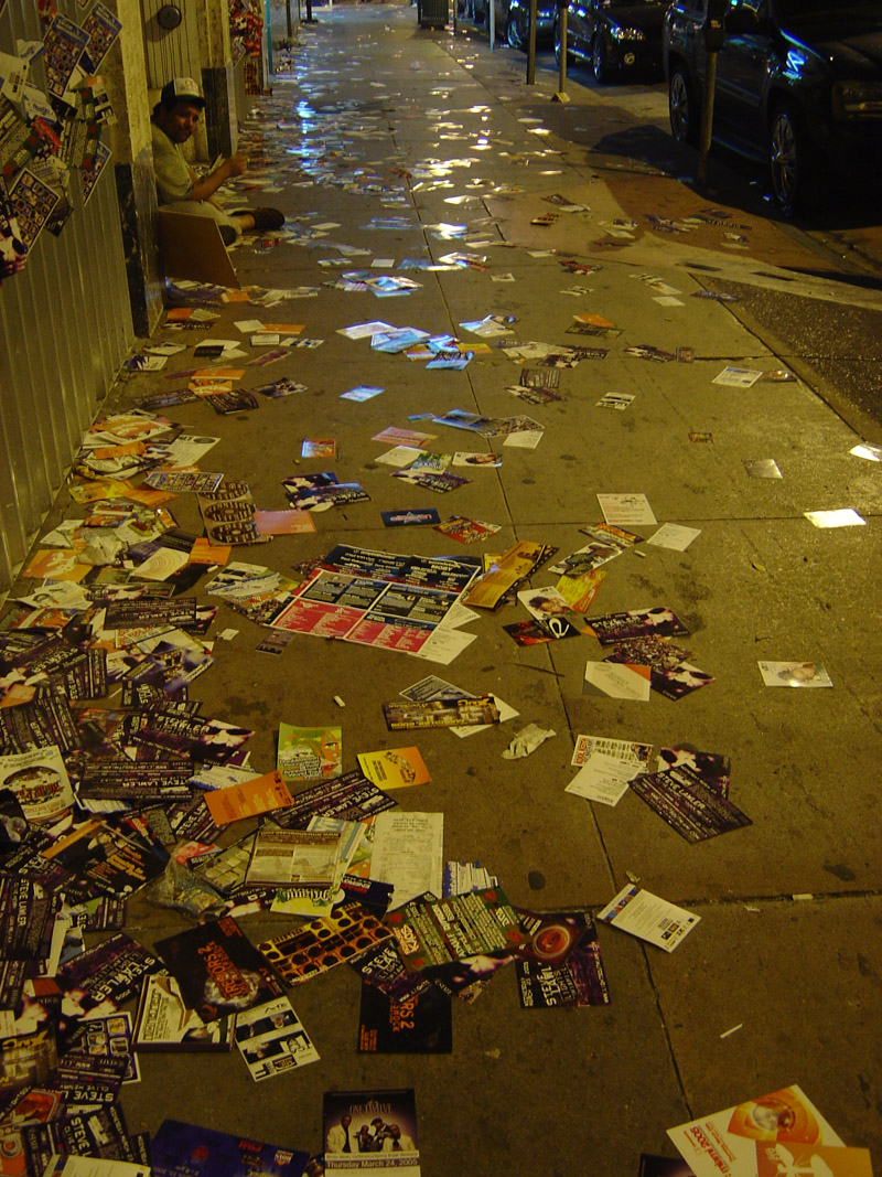 Flyers litter the sidewalk in Miami.